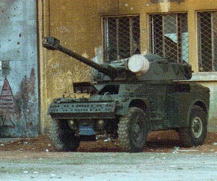 Cropped version of a previous Commons image. Panhard AML-90 armoured car. Cropped for an article on specific product depicted. Limited contextual relevance to original work.